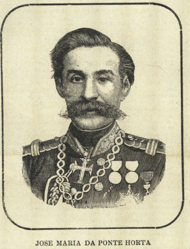 José Maria da Ponte e Horta's obituary in the Diario illustrado, 17 Mar 1892.